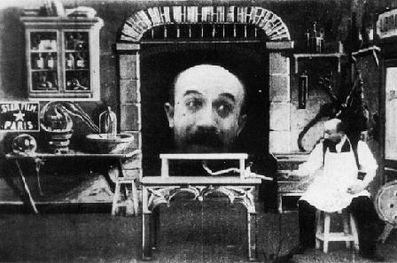 L'homme à la tête de caoutchouc screenshot. 1901 - public domain image